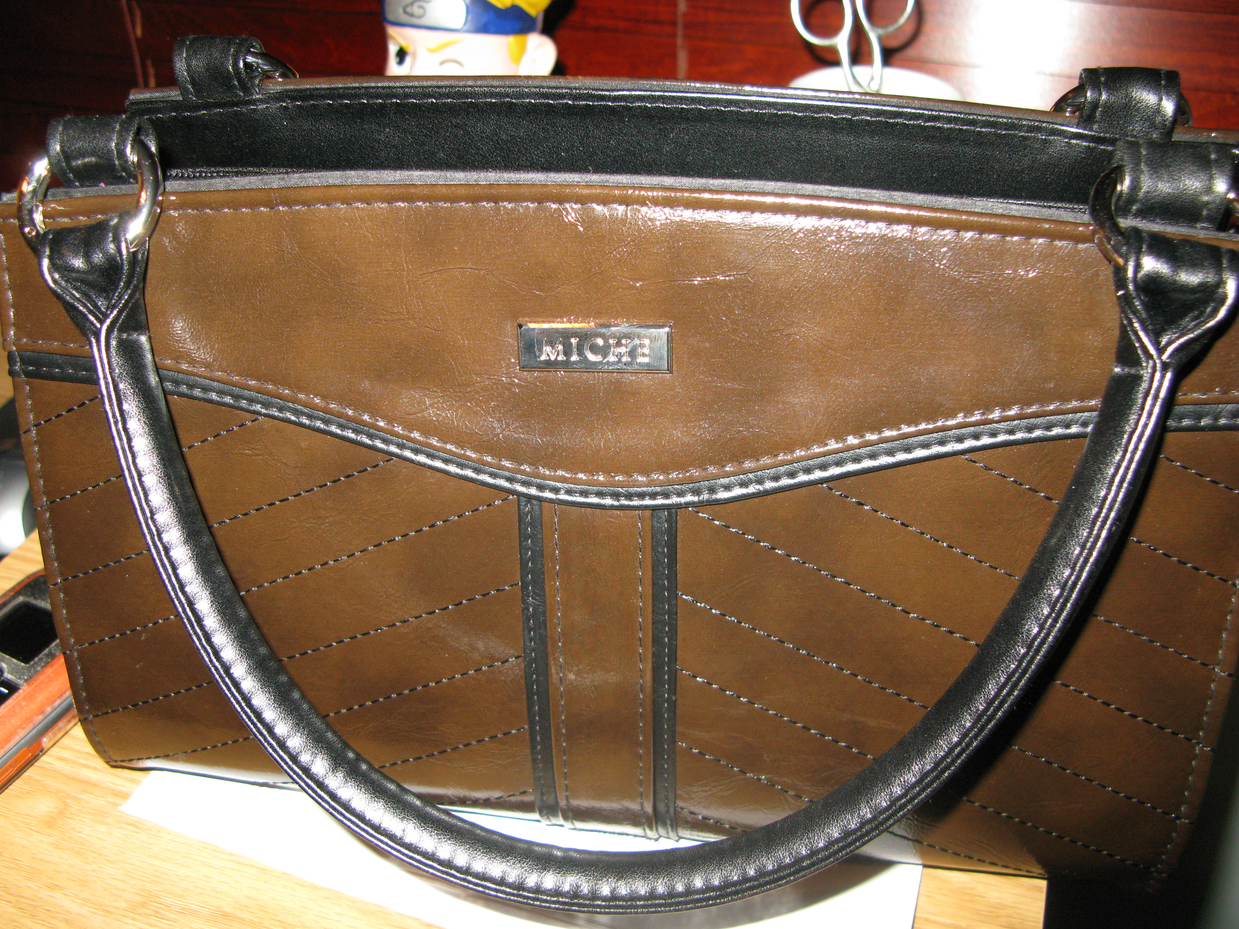 The front of a Miche bag with Christa shell